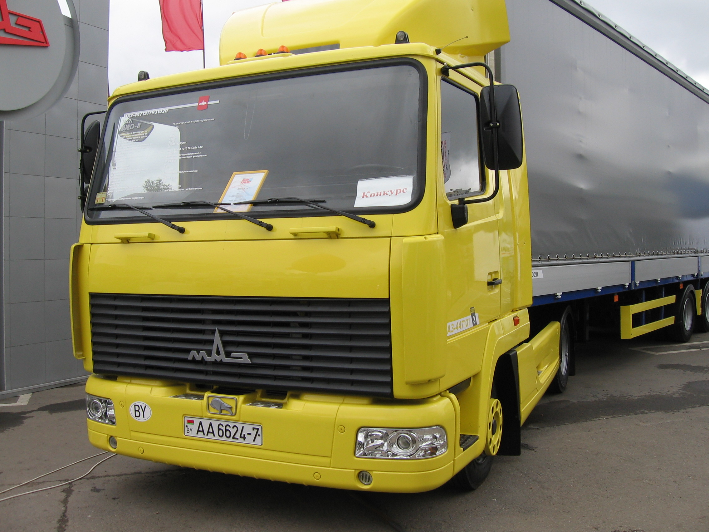 MAZ-447131, Moscow International Motor Show 2006